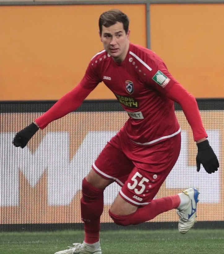 Maksim Osipenko with FC Tambov in a game against FC Lokomotiv Moscow.